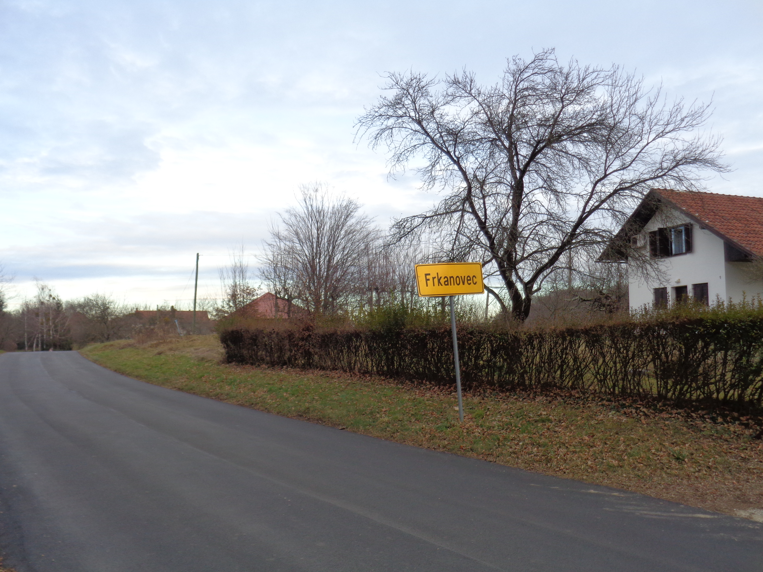 Frkanovec village in Međimurje County, northern Croatia - entrance